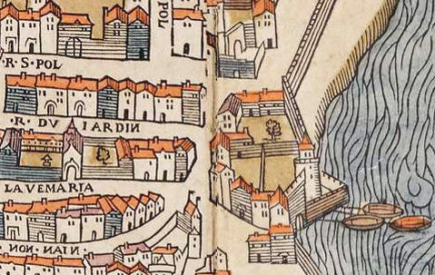 »Tour Barbeau » on the Plan de Truschet and Hoyau (1550).